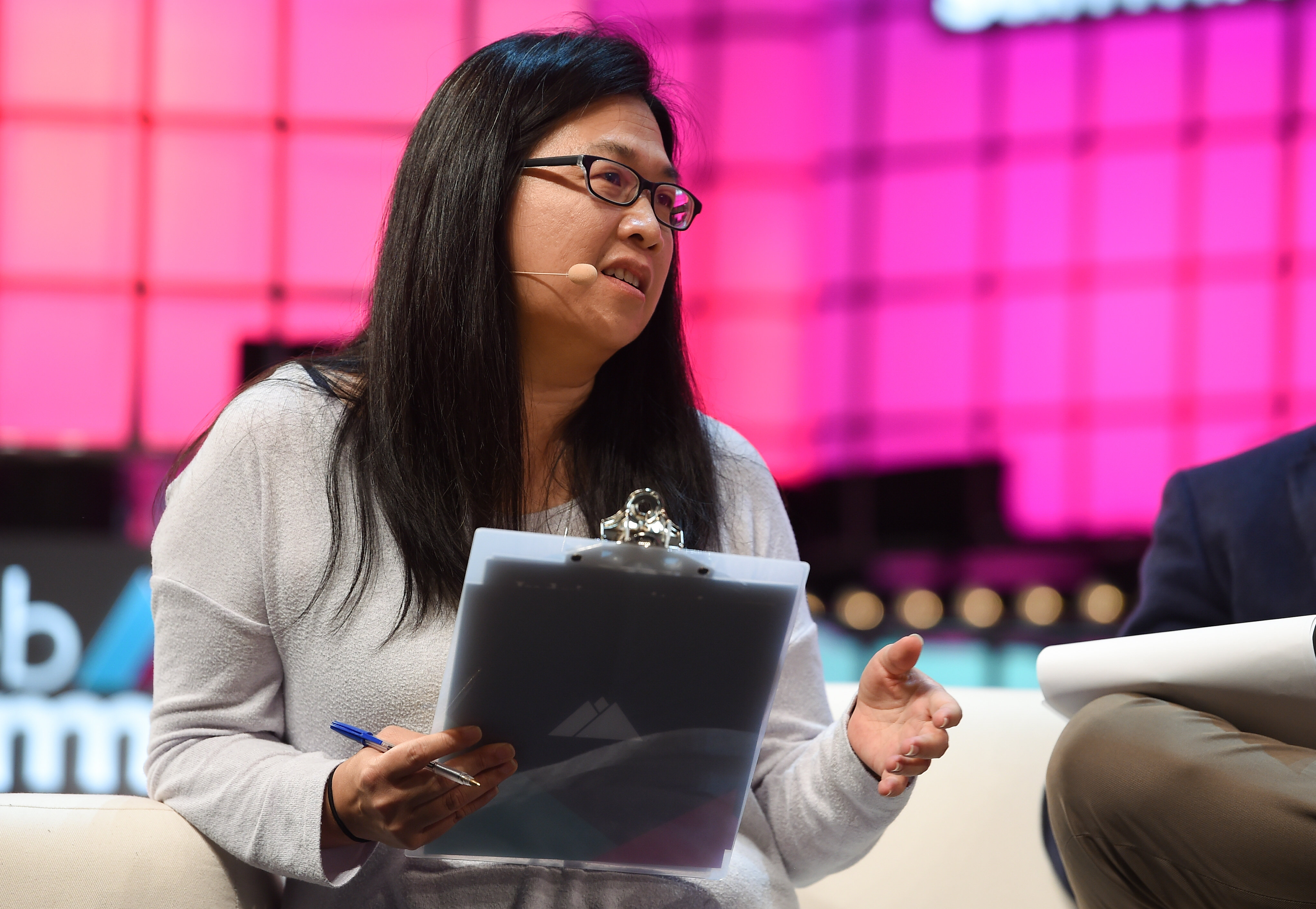 8 November 2018; Holly Liu, Visiting Partner, Y Combinator, on Centre Stage for the PITCH Final during day three of Web Summit 2018 at the Altice Arena in Lisbon, Portugal. Photo by Diarmuid Greene/Web Summit via Sportsfile